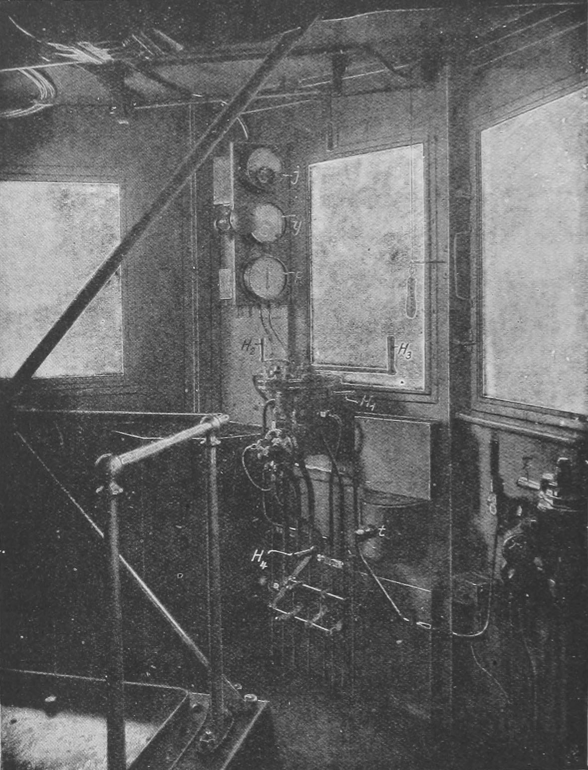 see image title - first number is figure or diagram number. See list of illustrations in source for page number in source - relevent text content is near to image in the source